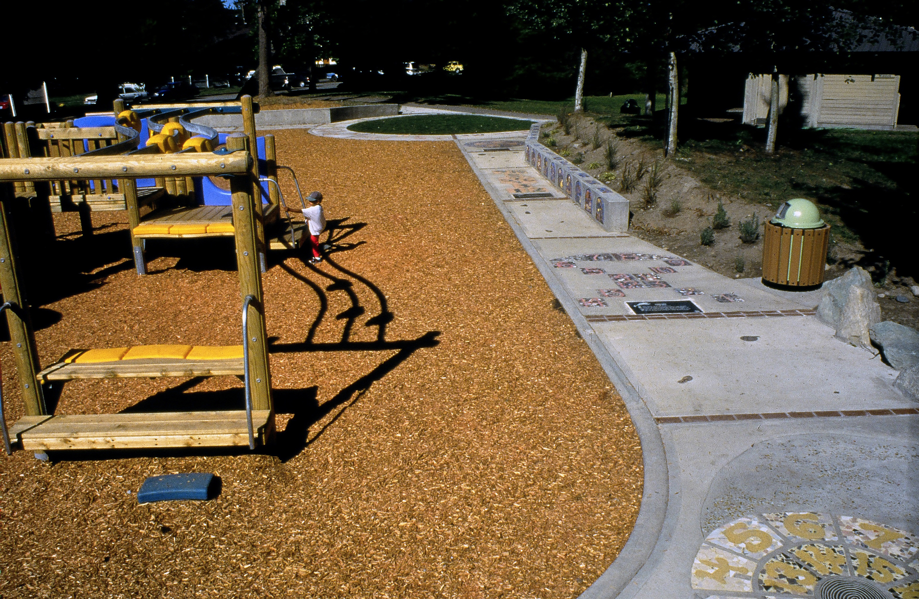 Licton Springs Park, Seattle, WA. Facing NW. Soon after the redesign was completed.